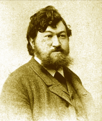 Czech artist Felix Jenewein (1857-1905)